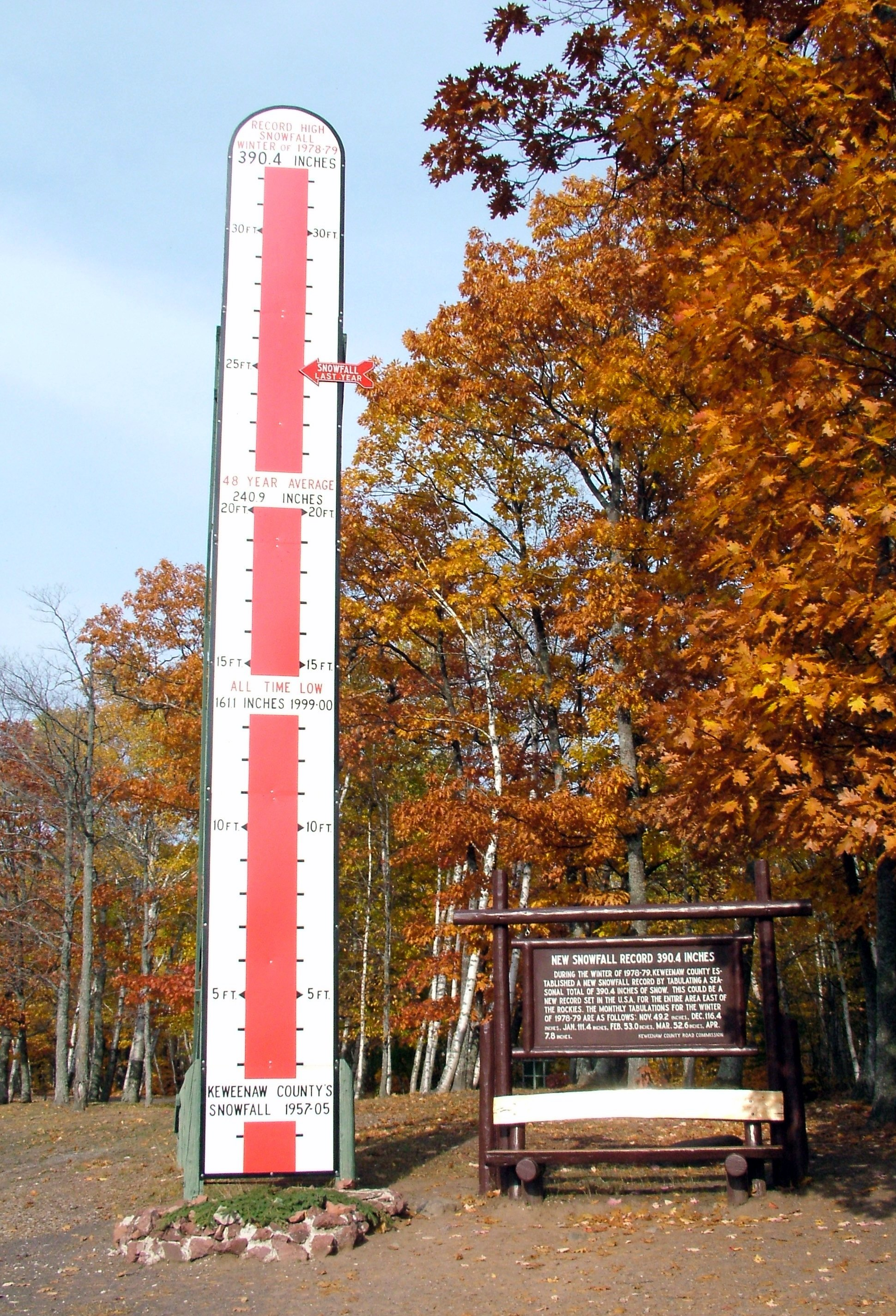 Keweenaw Peninsula Snow Thermometer next to US 41 near Mohawk, Michigan